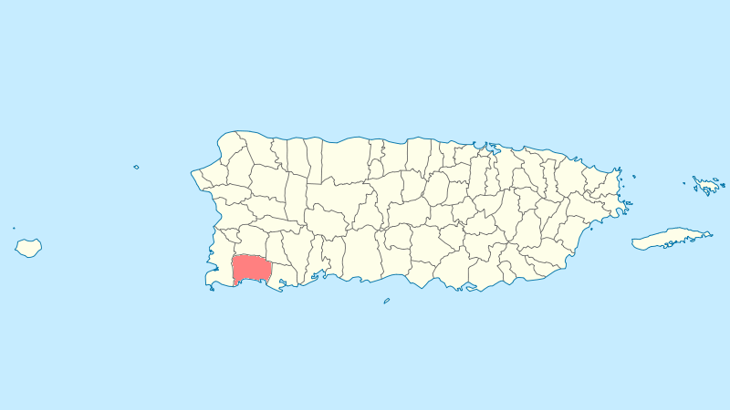 Municipal locator of Puerto Rico